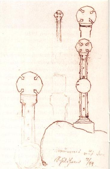 Sketch by Frederick William IV of Prussia for the Schildhorn-Monument, commemorating to a legend of the slavic Fürst (prince, ruler) Jacza de Copnic (Jaxa von Köpenick). The monument was created in 1845 by the sculptor Friedrich August Stüler acted on this sketch. Schildhorn (german for: shieldhorn) is a headland in the river Havel, situated in the protected area Grunewald in the homonymous quarter Grunewald of Berlins borough Charlottenburg-Wilmersdorf, Germany.